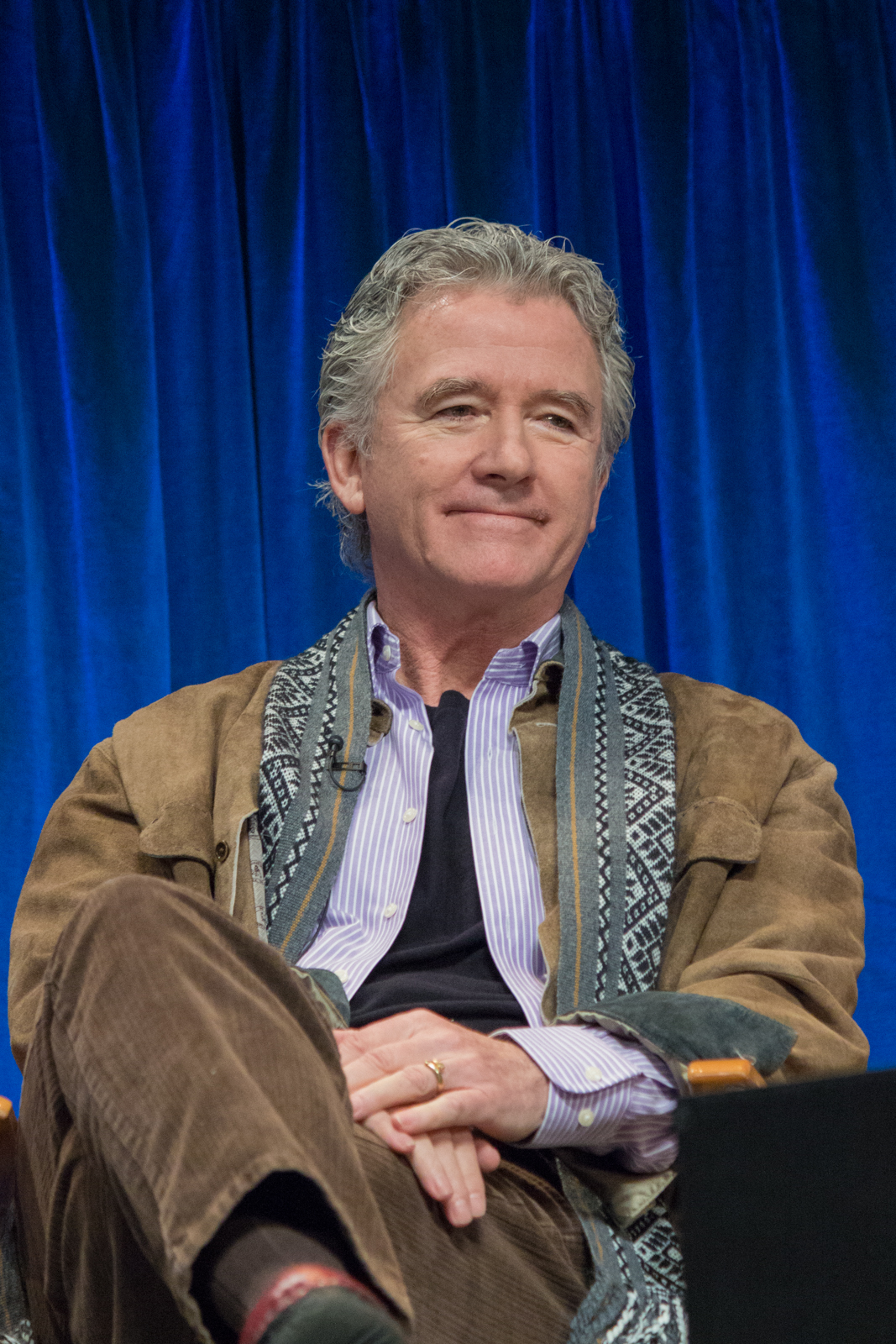 Patrick Duffy at the PaleyFest 2013 forum on the TV show Dallas